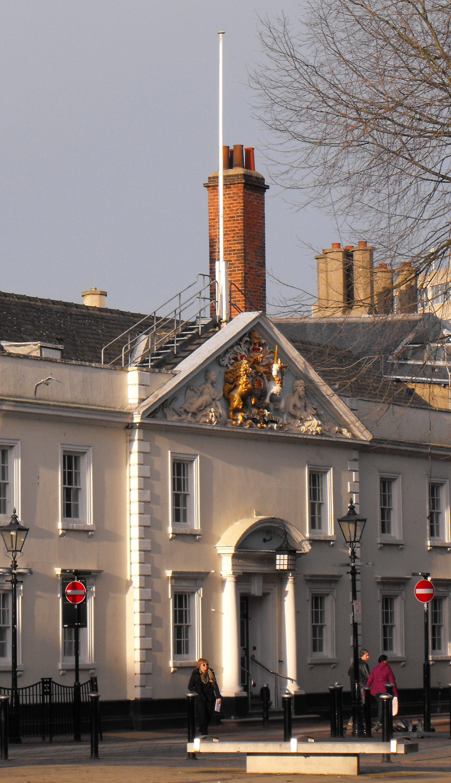 Trinity House Hull, Trinity Square, Hull, England.